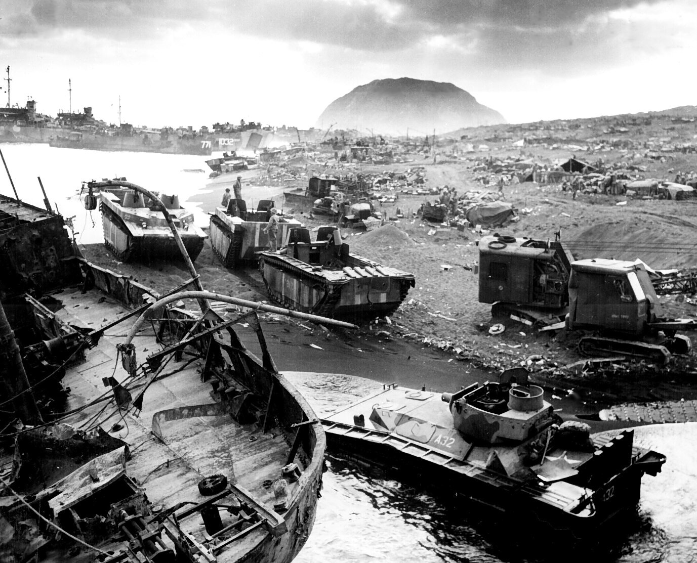 Smashed by Japanese mortar and shellfire, trapped by Iwo's treacherous black-ash sands, amtracs and other vehicles of war lay knocked out on the black sands of the volcanic fortress. c. February/March 1945